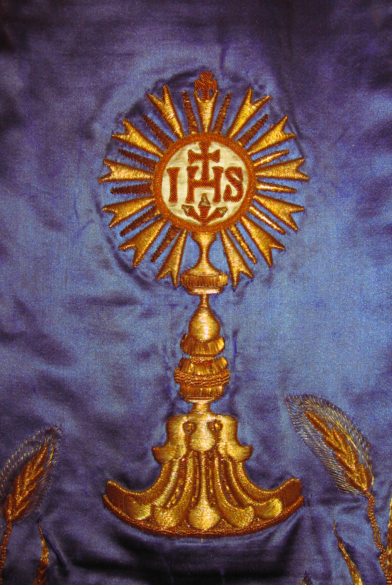 Holy Sacrament Brotherhood Taranto